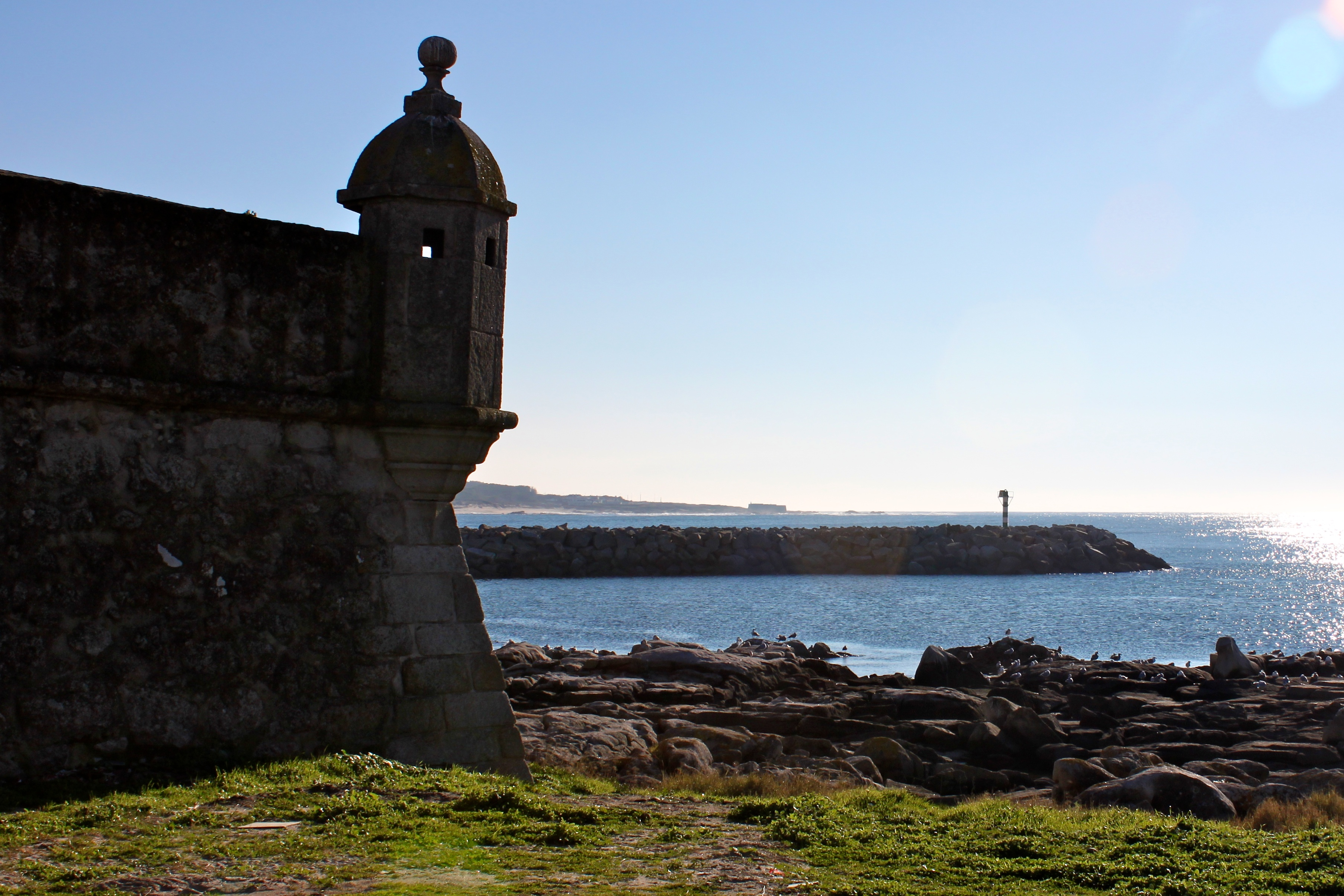 This file was uploaded for Wiki Loves Monuments in Portugal with the unique identifier 73297.